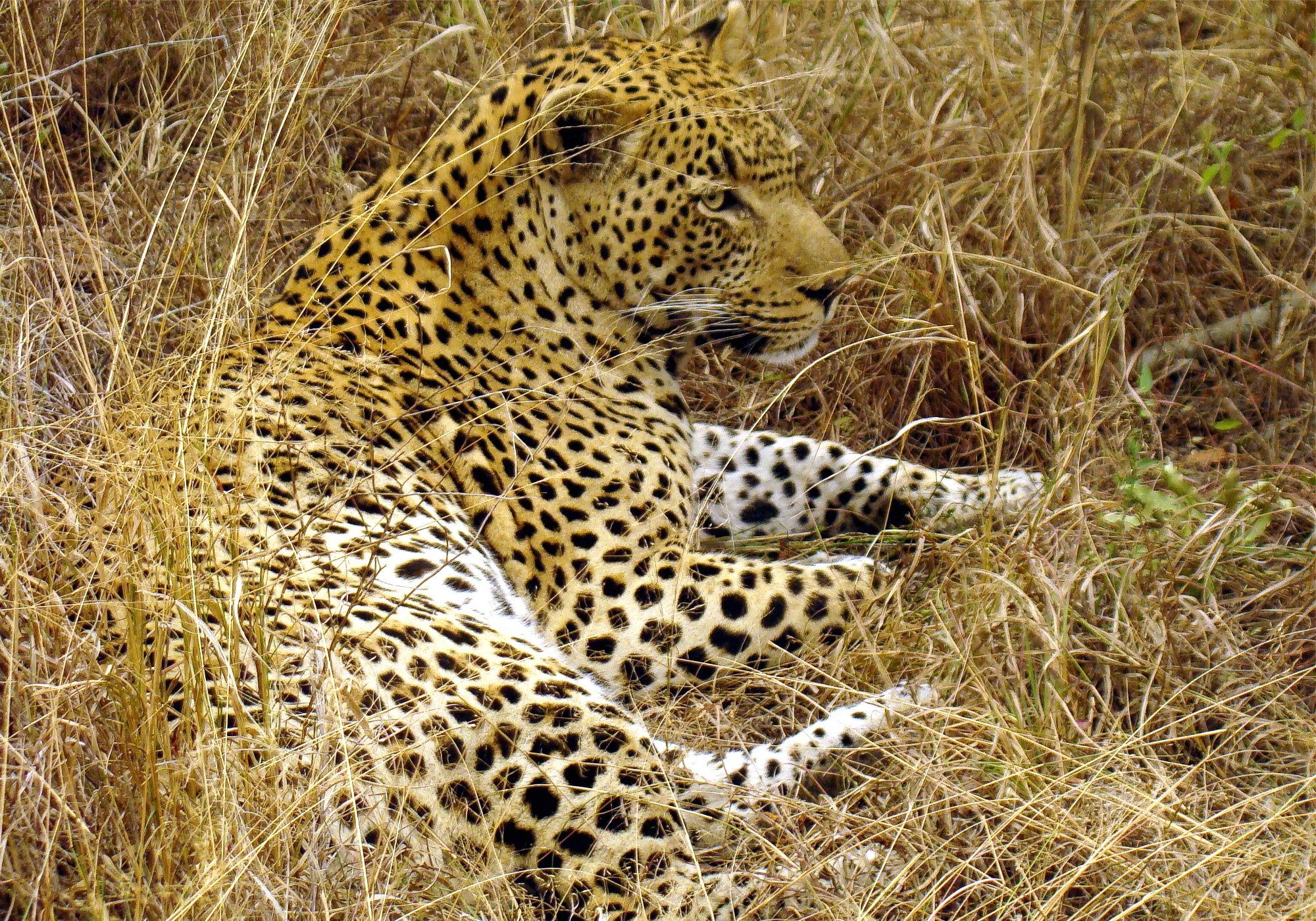 Great male Leopard, made in Sabi Sand Private Game Reserve, South Africa.